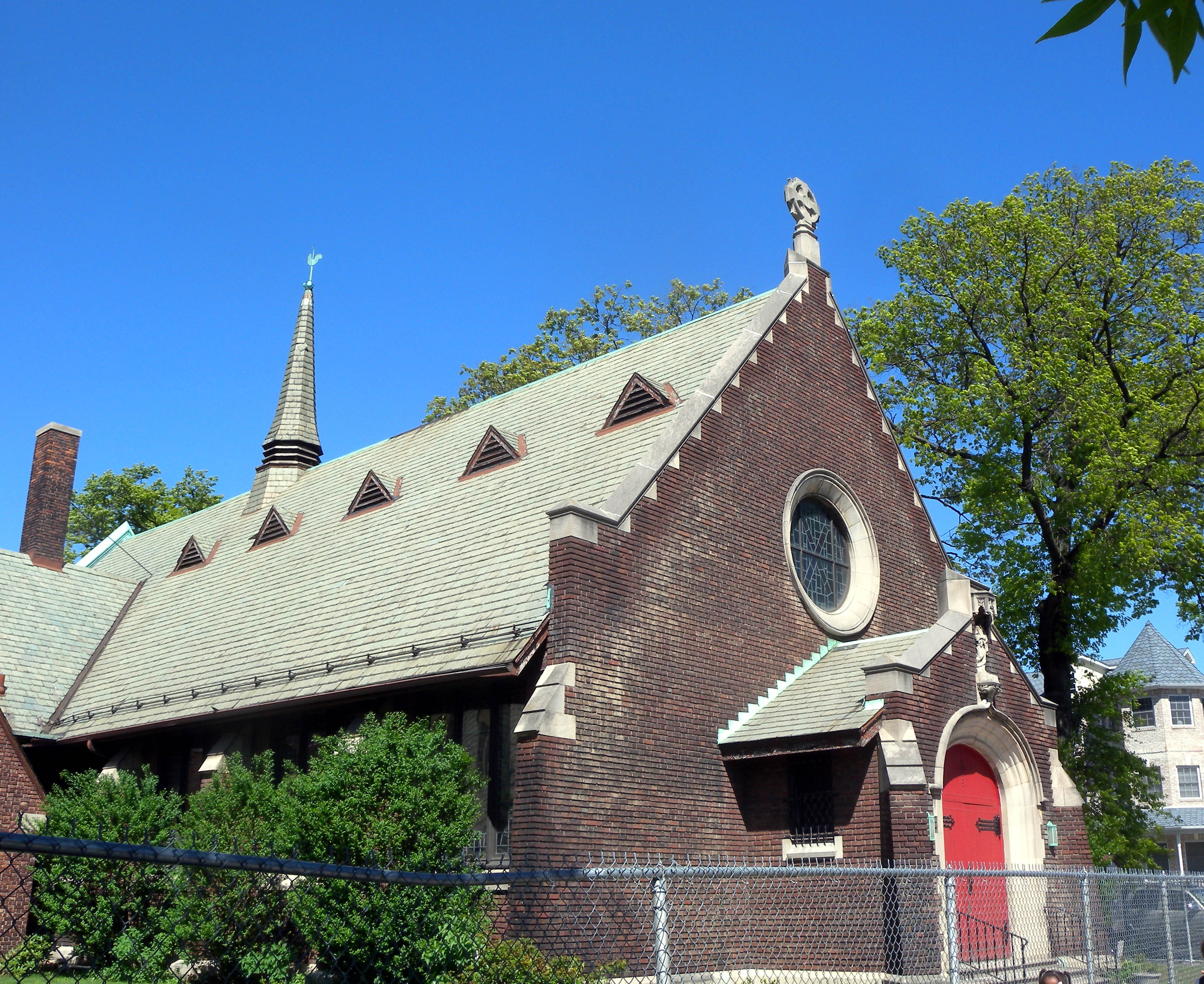 Looking northeast at St Andrew's Episcopal Church on a sunny midday.